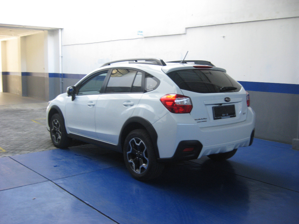 2013 Subaru XV 2.0i Premium (GP7), photographed in Bandung, Indonesia.